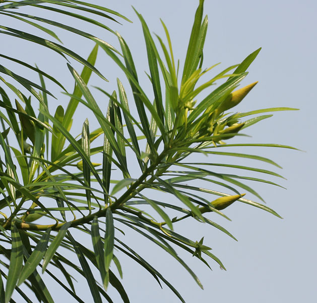 Yellow Oleander Thevetia peruviana in Kolkata, West Bengal, India.